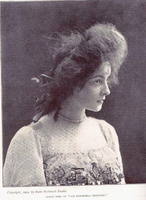 Marie Doro in The Admirable Chrichton at Lyceum Theatre.